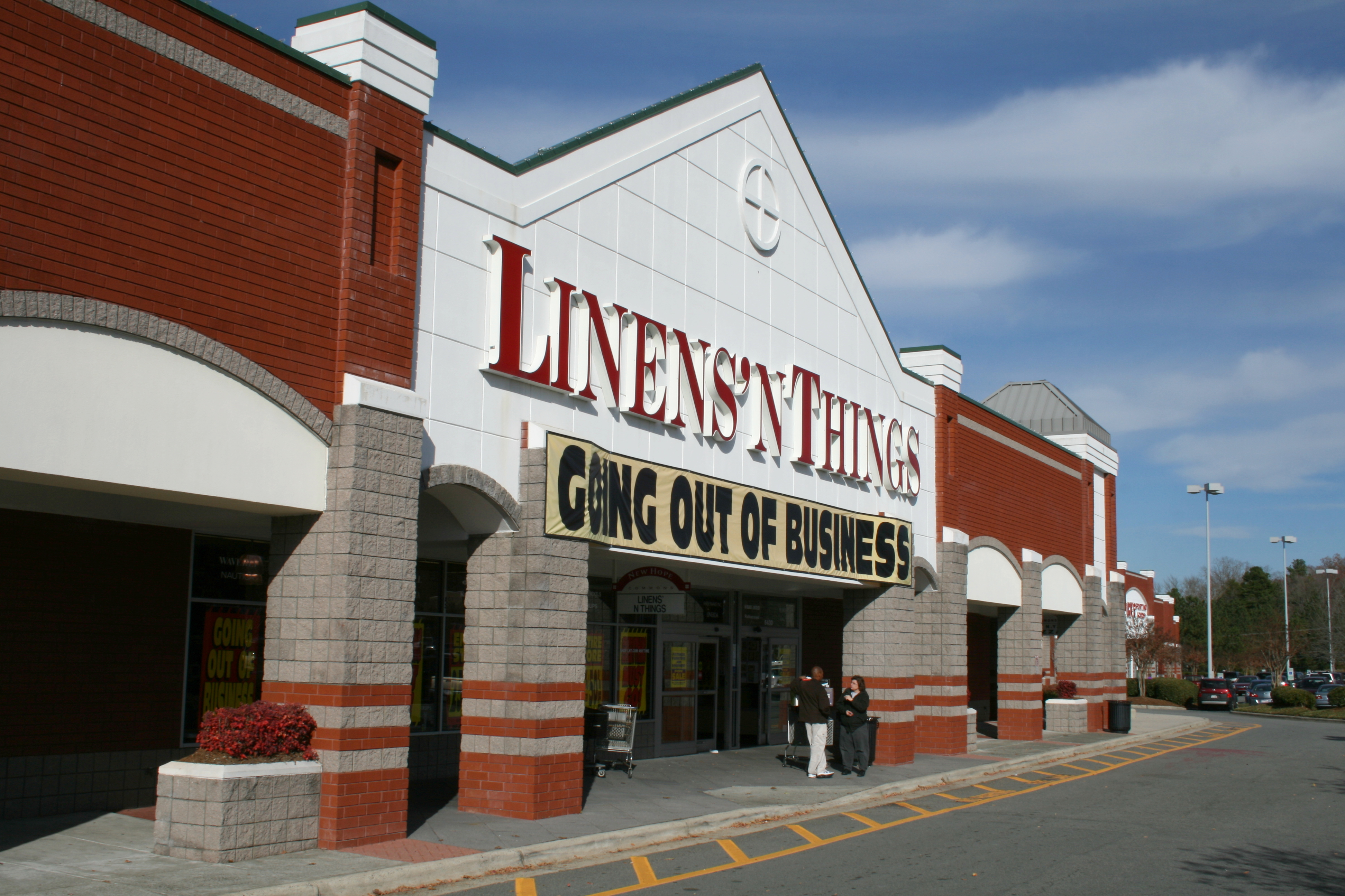 Linens 'n Things going out of business at New Hope Commons in Durham, North Carolina.